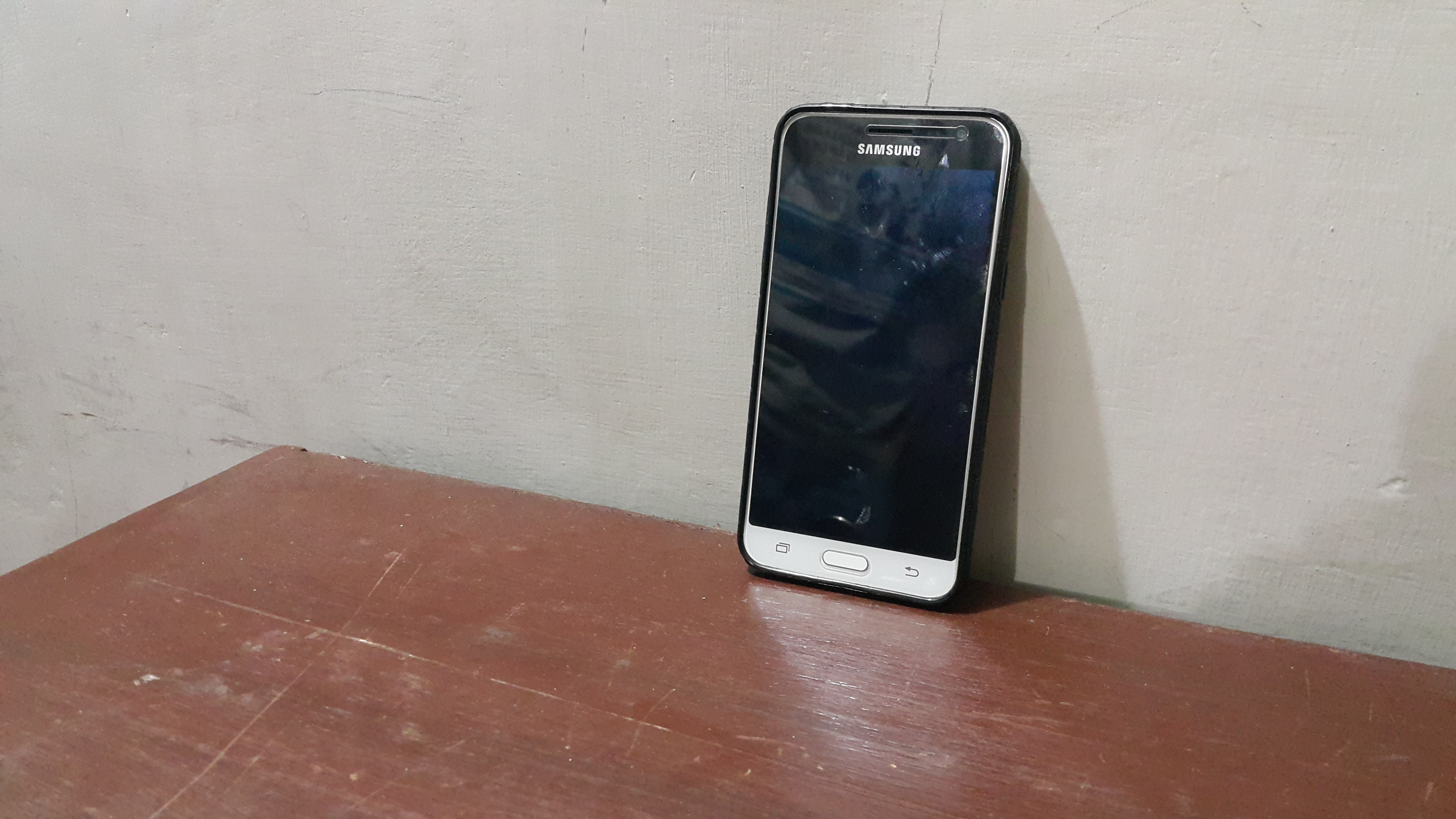 Samsung Galaxy J3 2016 Edition. Black Model